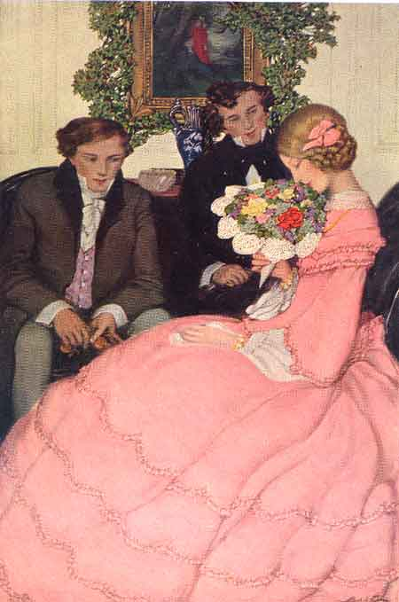 Illustration titled "Christmas Callers" published in the December 1904 edition of Century Magazine